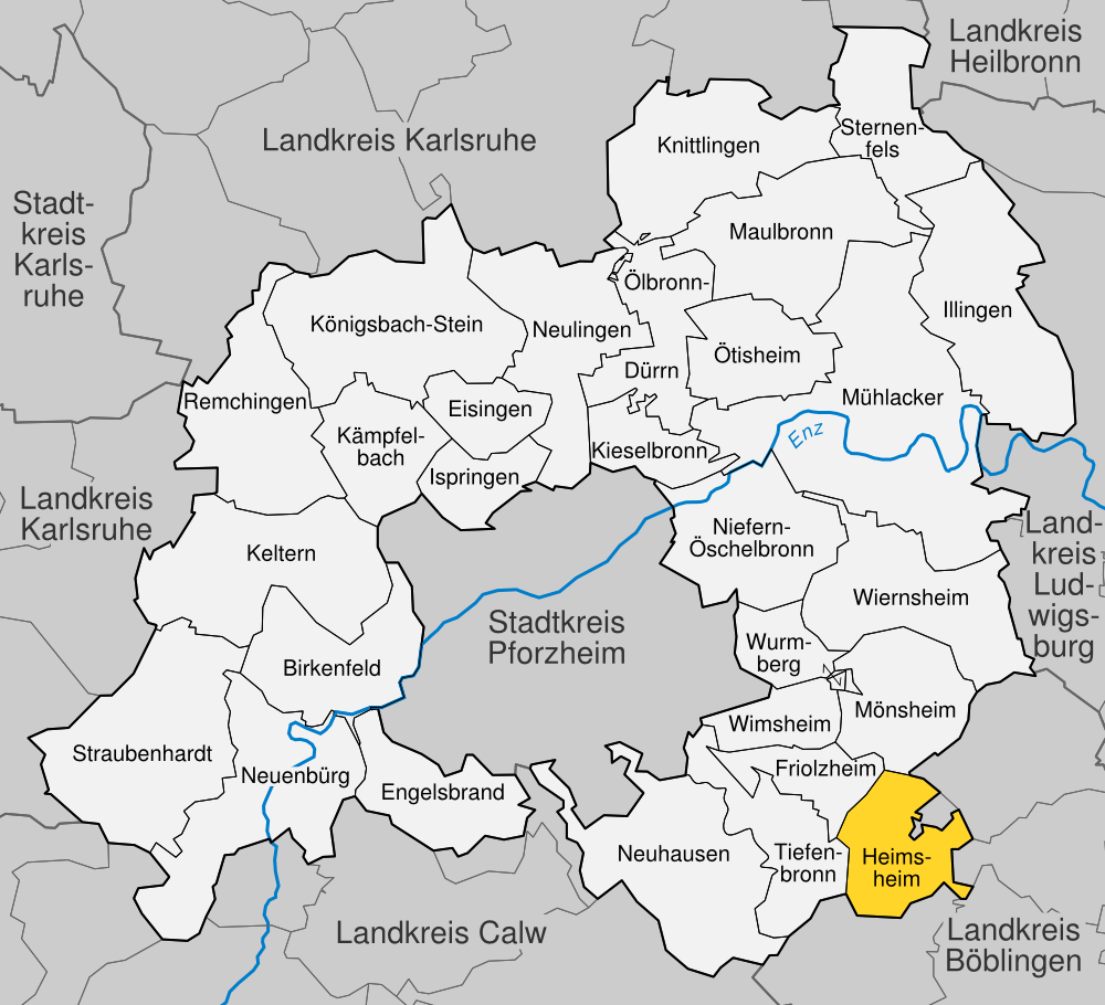 position of Heimsheim within distict of Enzkreis, Baden-Württemberg, Germany